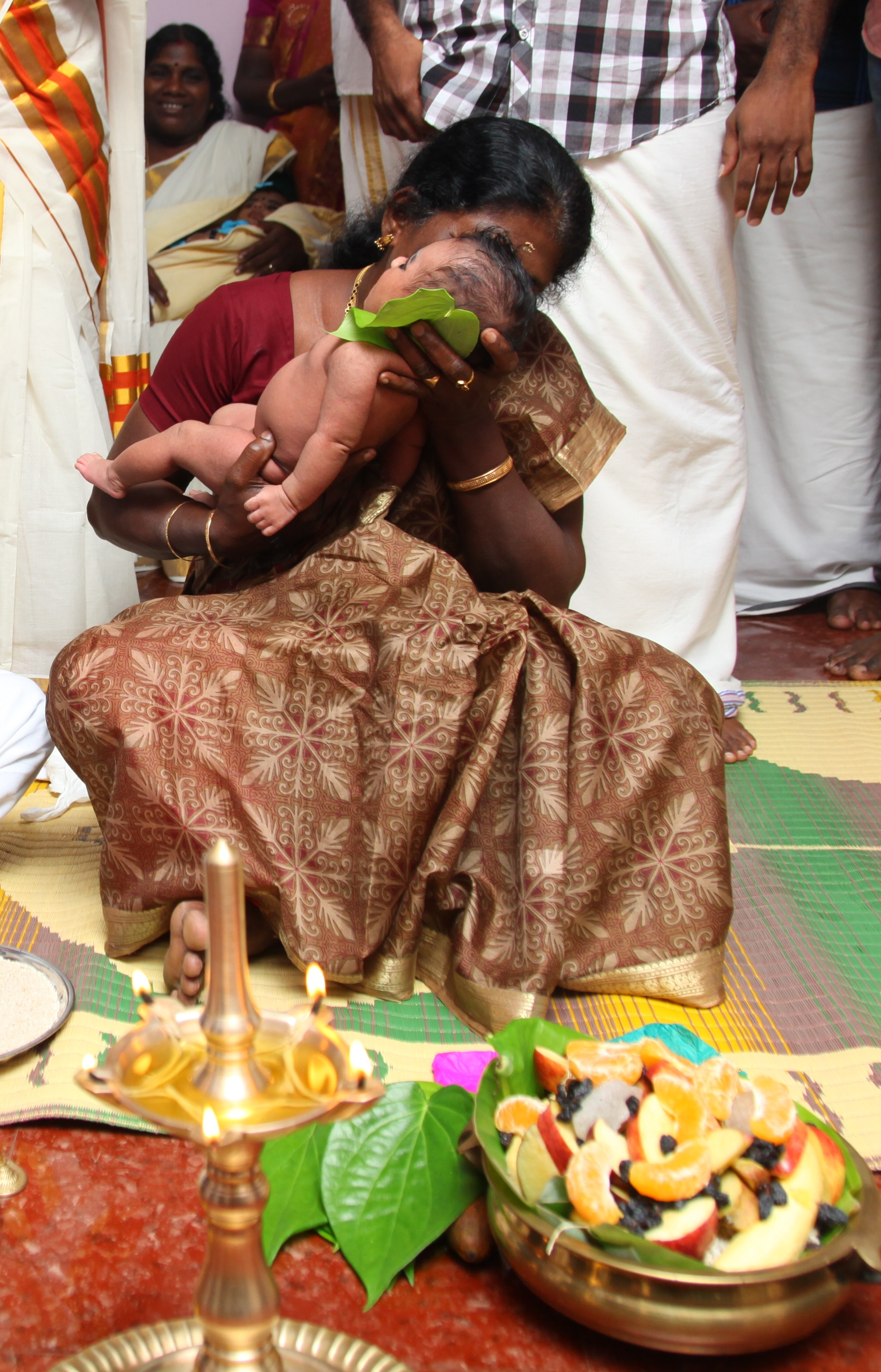 Grand Mother (Baby's Father's Mother) whisper baby's name three times in her, by closing the other ear with beetle leaf, called naming. .